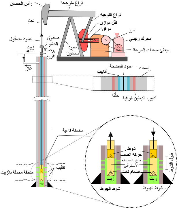 A labelled version of the pump jack diagram. There are blown up bubbles for the downhole pump and a cross section of the borehole (showing the casing, tubing, sucker rods and annulus). I made it with Inkscape. It is in png format because the SVG version was not showing the labels properly, if you think you can fix this, you can label the unlabeled version (see below), it is in SVG.